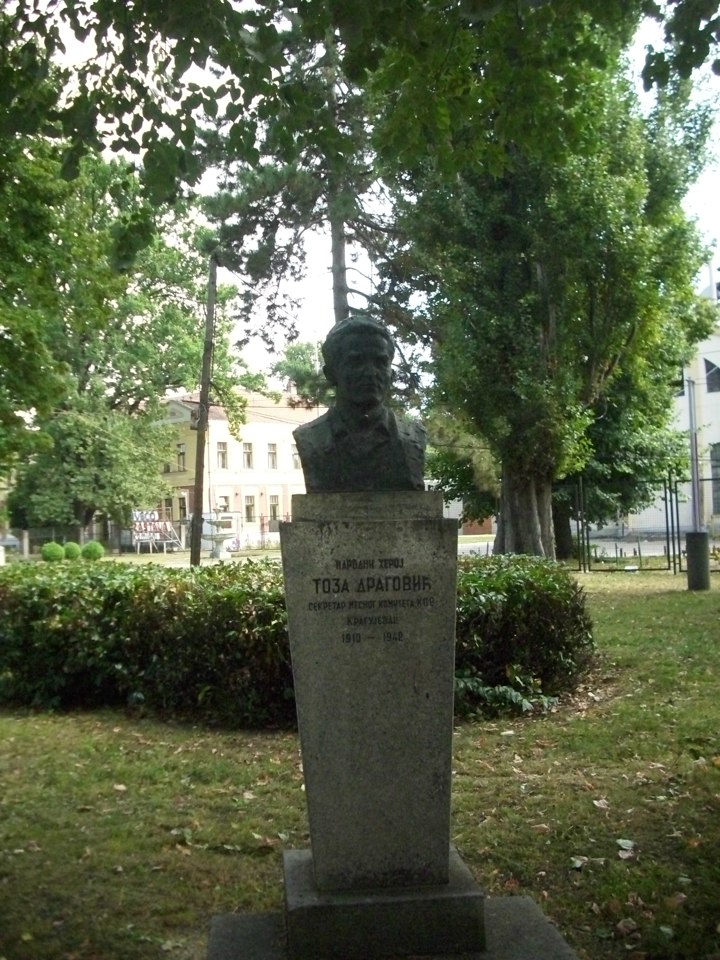 Toza Dragović, People's Heroe of Yugoslavia. Monument in Kragujevac in "Zastava" area.. September 2010